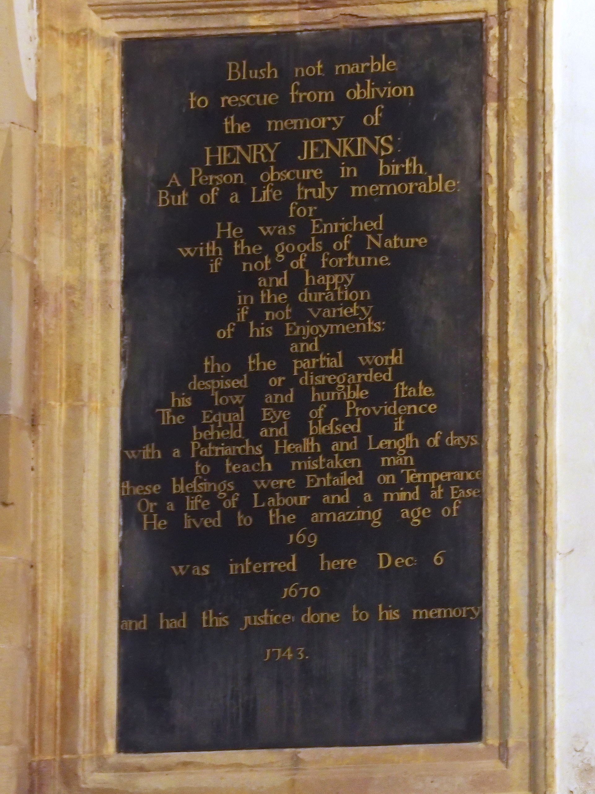 Plaque in St Mary’s Church, Bolton-on-Swale, celebrating the life of Henry Jenkins who claimed to be 169 years old in the year of his death.